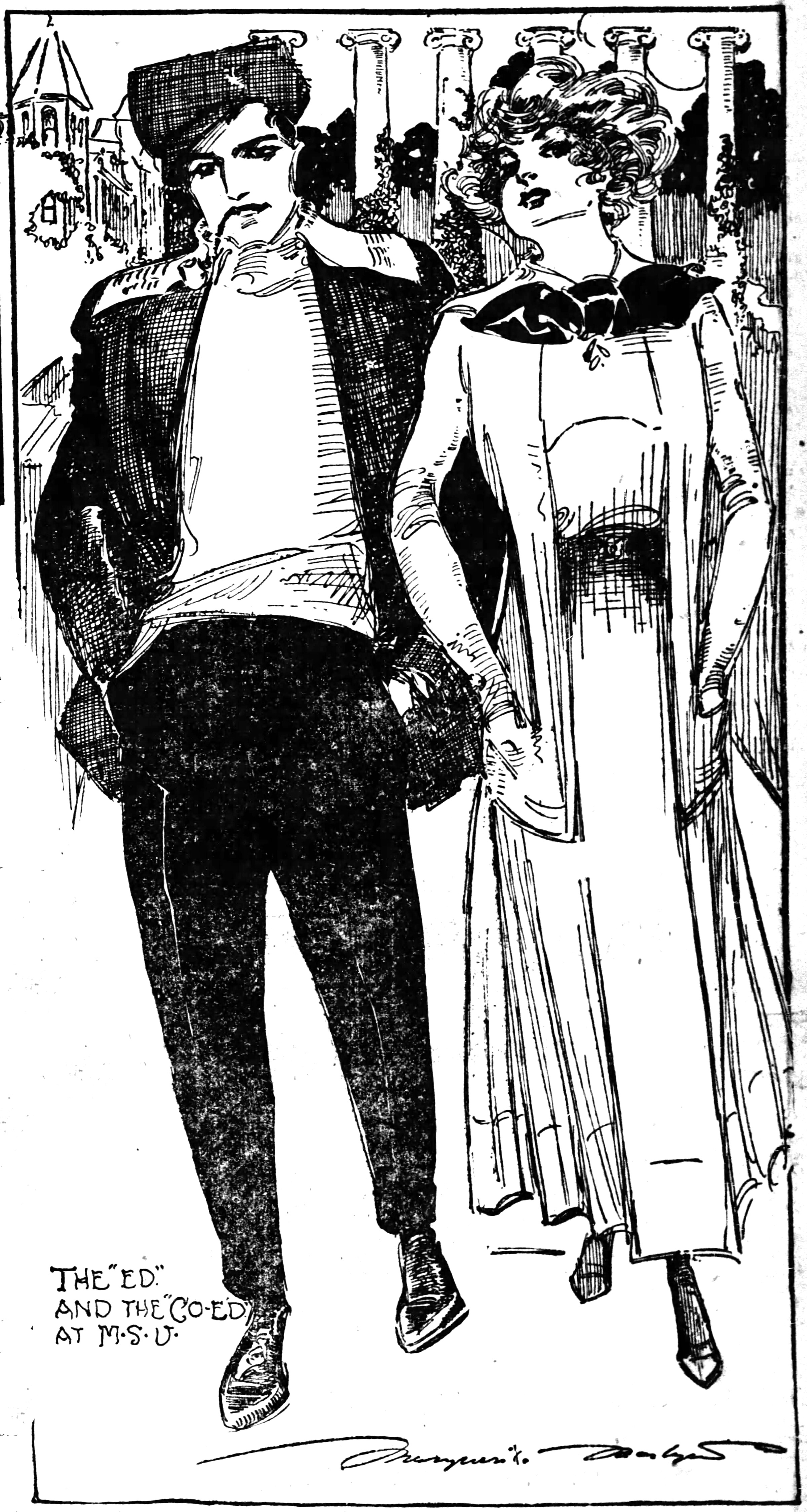 Two fashionable students at the Missouri State University (later the University of Missouri) in Columbia, Missouri, as drawn by Marguerite Martyn, 1910